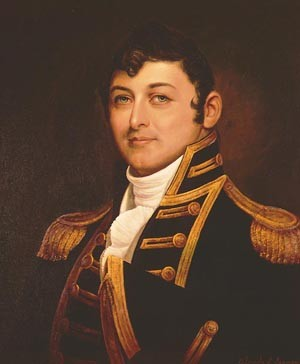 Captain Isaac Hull USN(1773-1843)